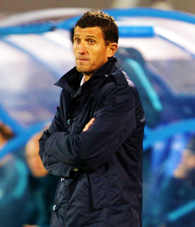 Javier Gracia Carlos